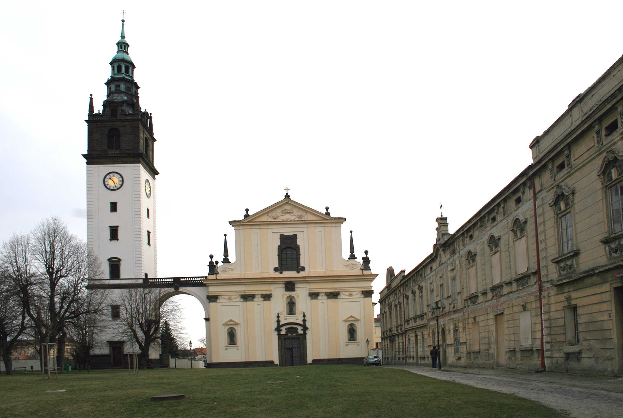 St. Stephen cathedral with belfry in Litoměřice, Czech Republic